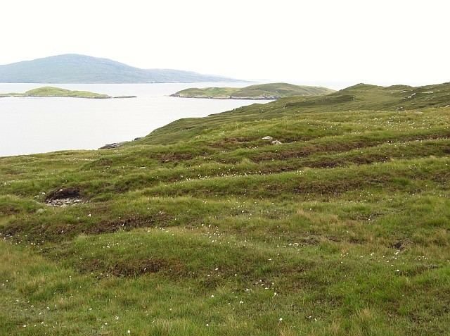 Old Lazybeds The grassy ridges are the remnants of lazybeds made by crofters for cultivating crops in the poor soil. South Harris can be seen across the Soay Sound, with Soay Mor and Soay Beag in between.